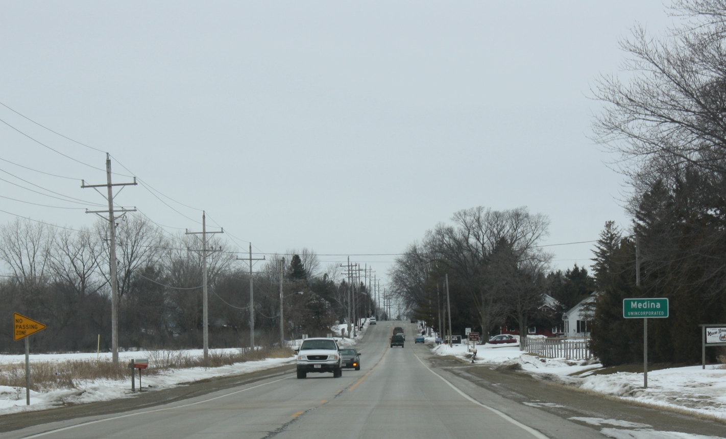 Looking west at the sign for unincorporated community of Medina in Outagamie County, Wisconsin on Wisconsin Highway 96.